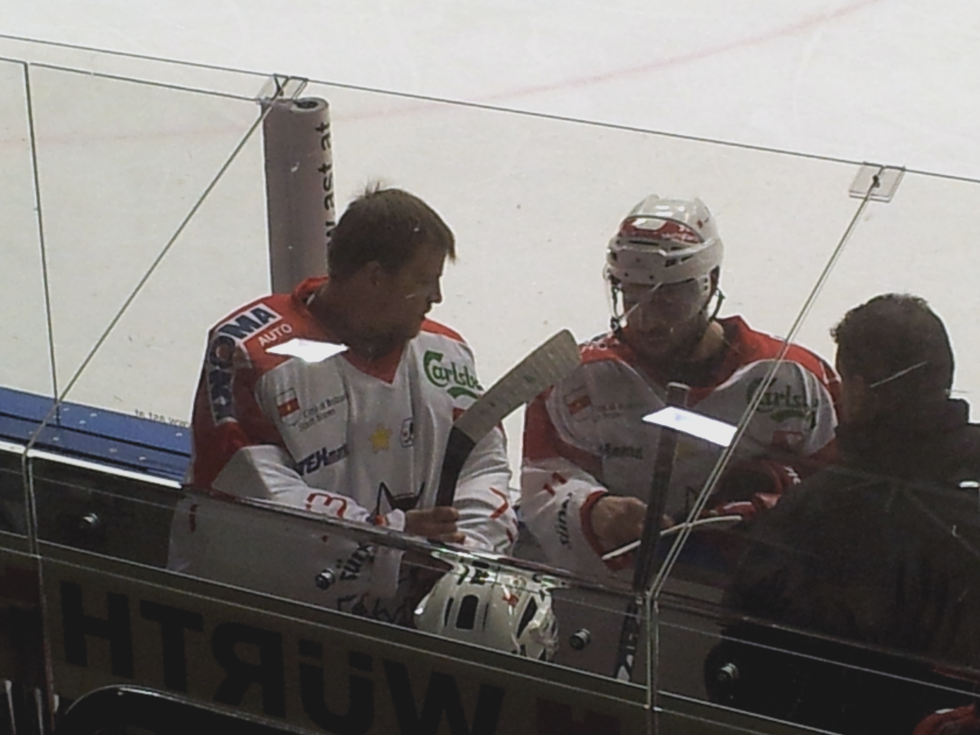 Günther Hell (sx) e Stefano Giliati (dx) wearing HC Bolzano jersey, during the 2011-2012 Coppa Italia final